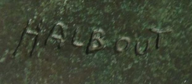 Signature of French sculptor Georges Halbout du Tanney